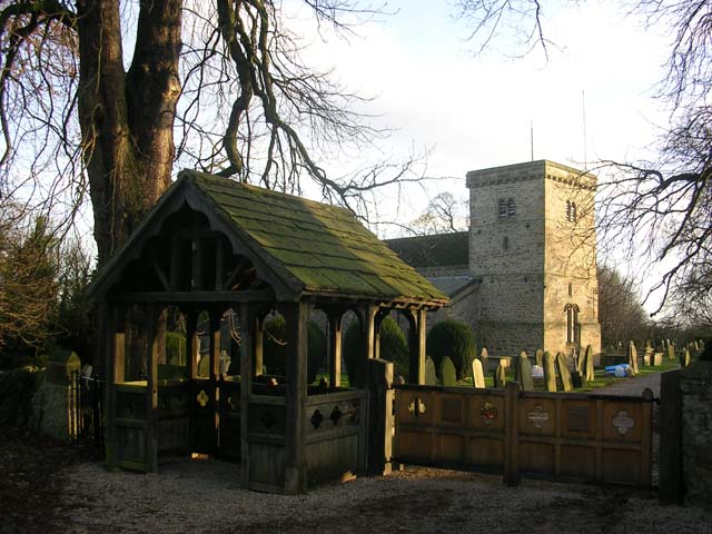 St Michael and All Angels Church, Middleton Tyas. This lovely little church stands a full kilometre outside the village.